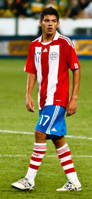 Marcos Riveros playing for the Paraguay national football team in a friendly match against Australia at the Sydney Football Stadium.